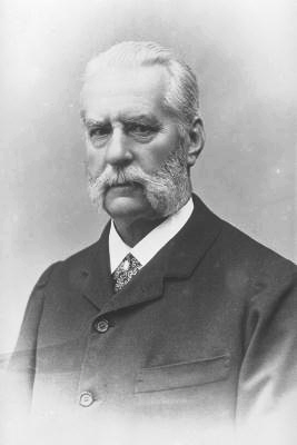 Josef Roman Lorenz Ritter von Liburnau. Foto, ca. 1890.